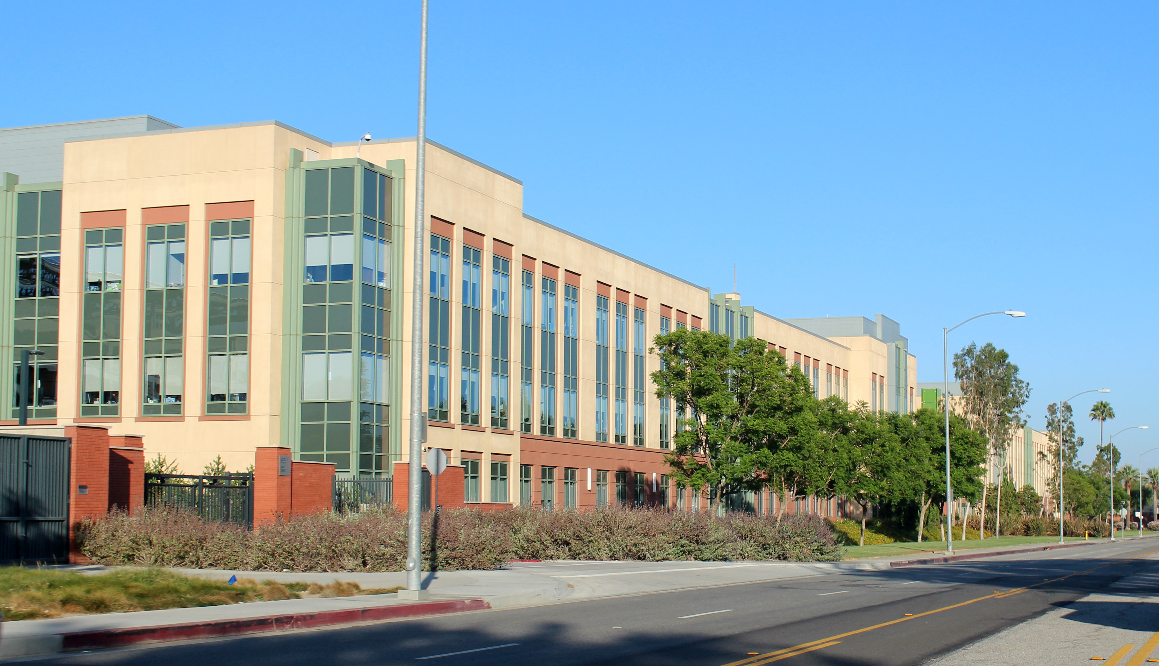 1201 Flower Street in Glendale, California. At the time this photograph was taken, this building was home to the offices of Disney Consumer Products (although the company's official address is at the Walt Disney Studios' lot in nearby Burbank). The building is part of Disney's Grand Central Creative Campus (GC3). Photographed by user Coolcaesar on July 13, 2016.